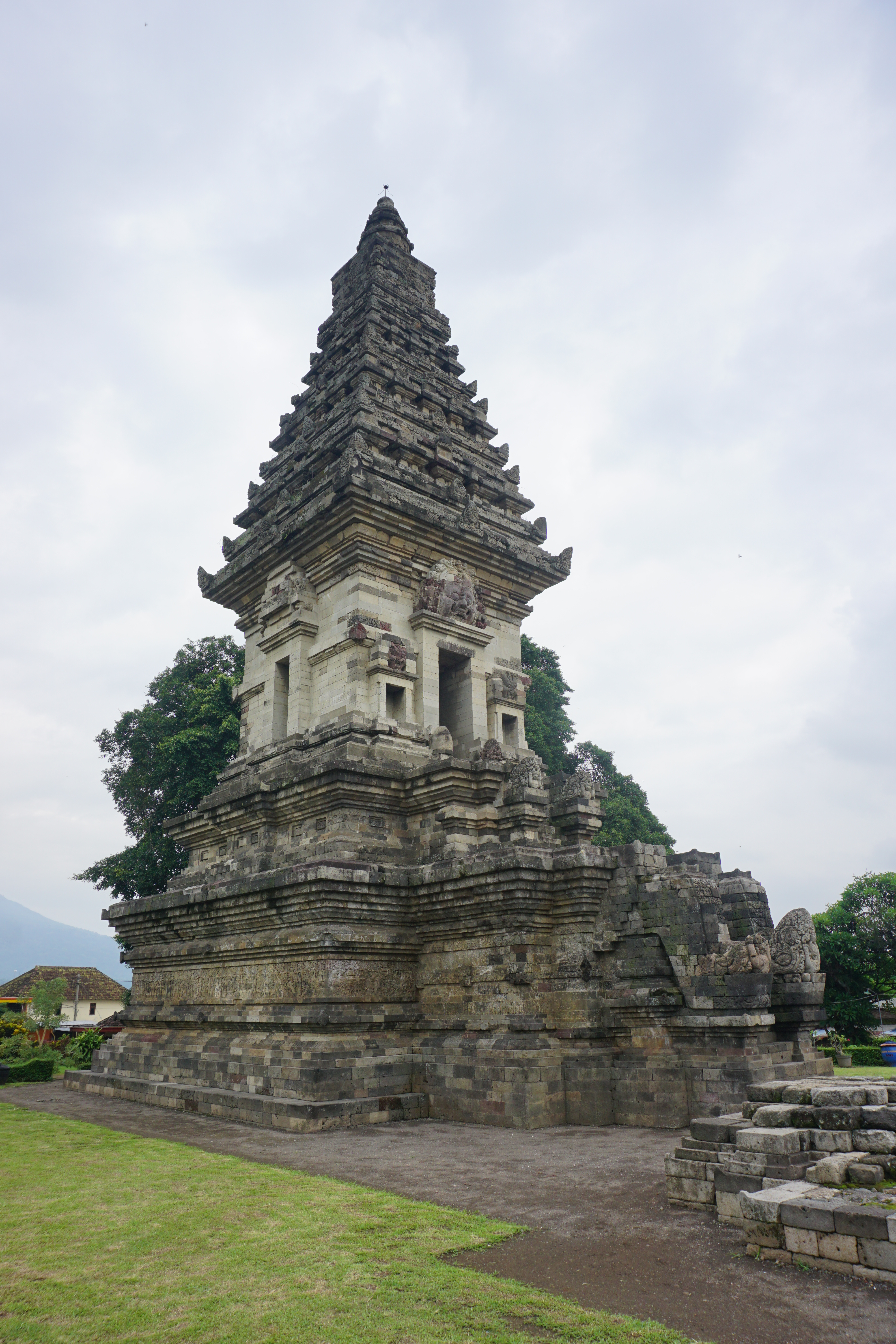 001 View from South, Candi Jawi, Pasuruan Candis, East Java Pasuruan, East Java